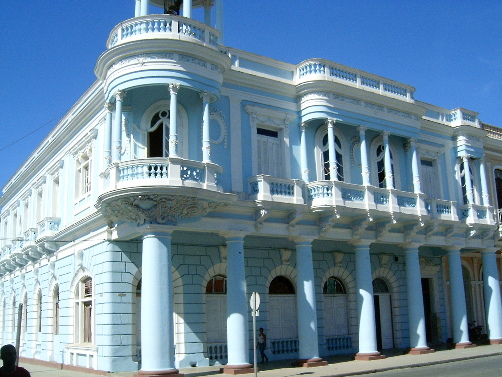 Building in Cienfuegos (Cuba)